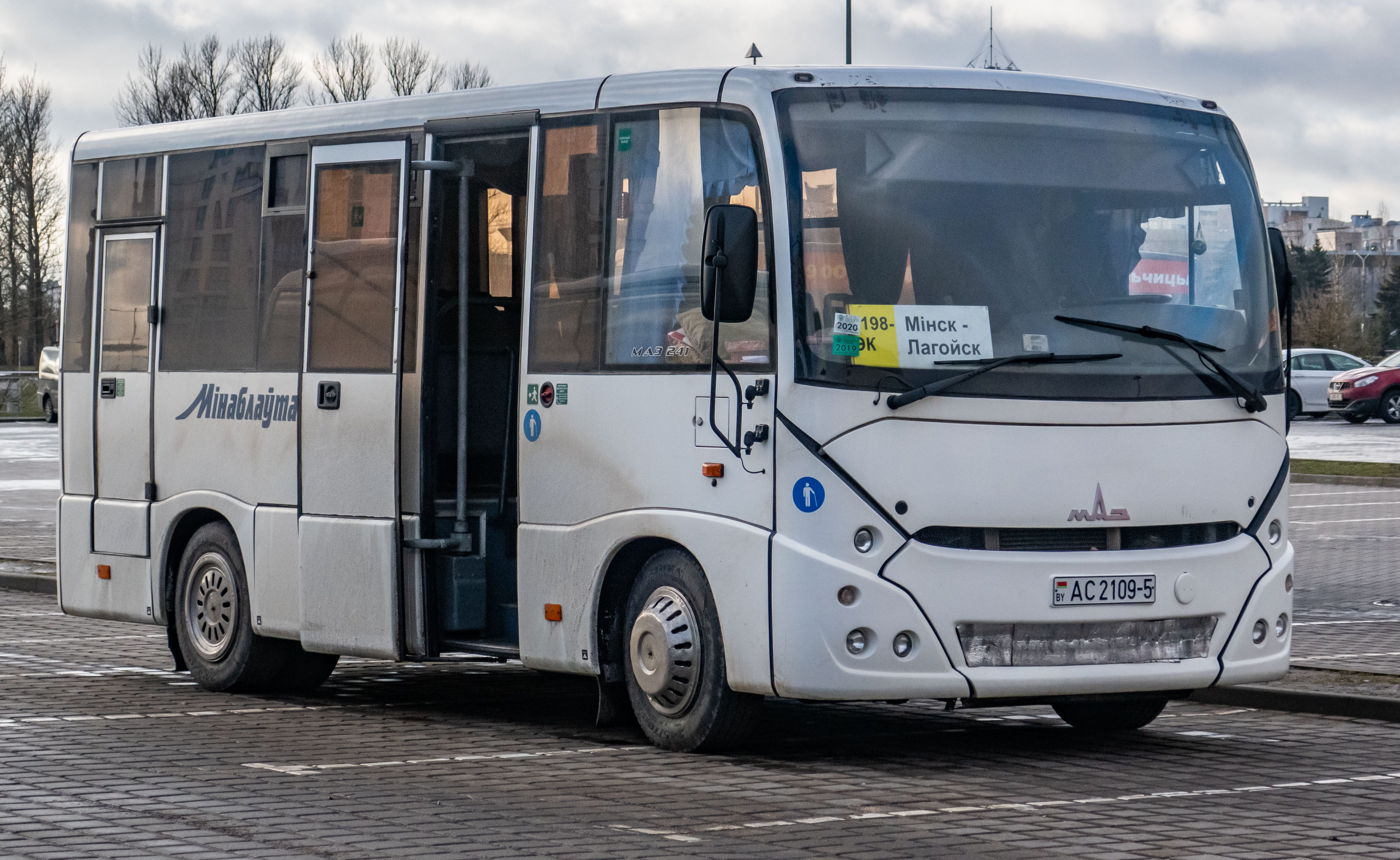 MAZ-241 bus. Minsk, Belarus